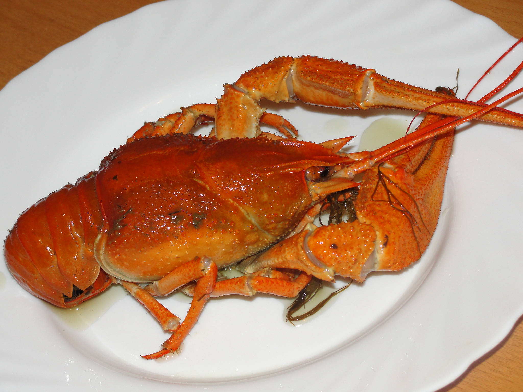 A boiled crayfish of enormous size (Moscow, Russia)